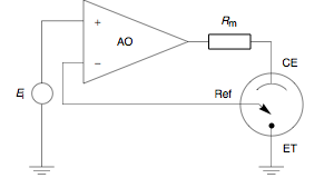 Scheme of a potentiostat